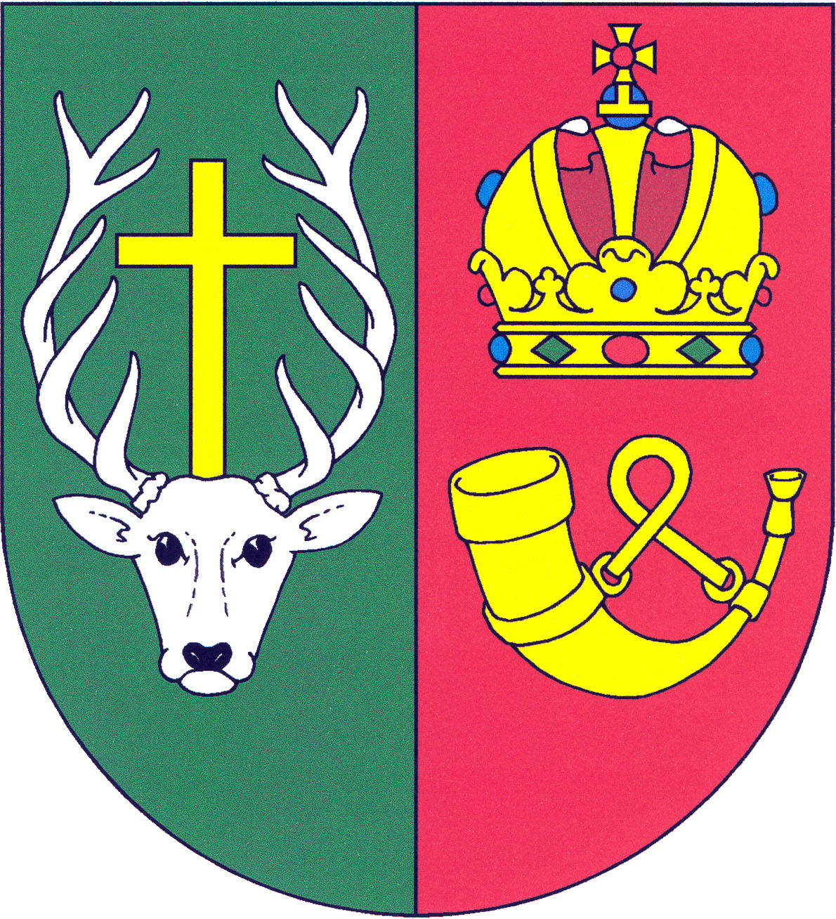 Coat of amrs of Hlavenec , District Prague East, Czech Republic